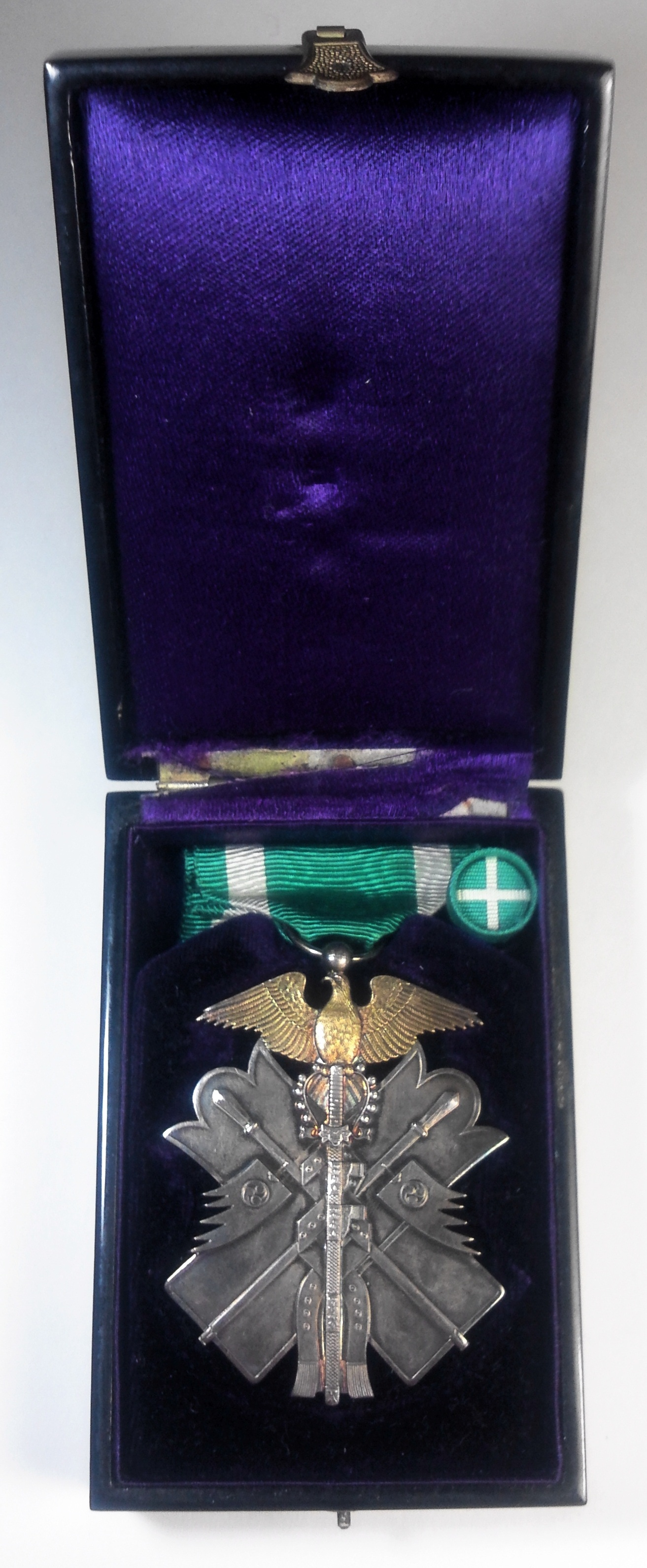 Order of the Golden Kite 7th Class with case.